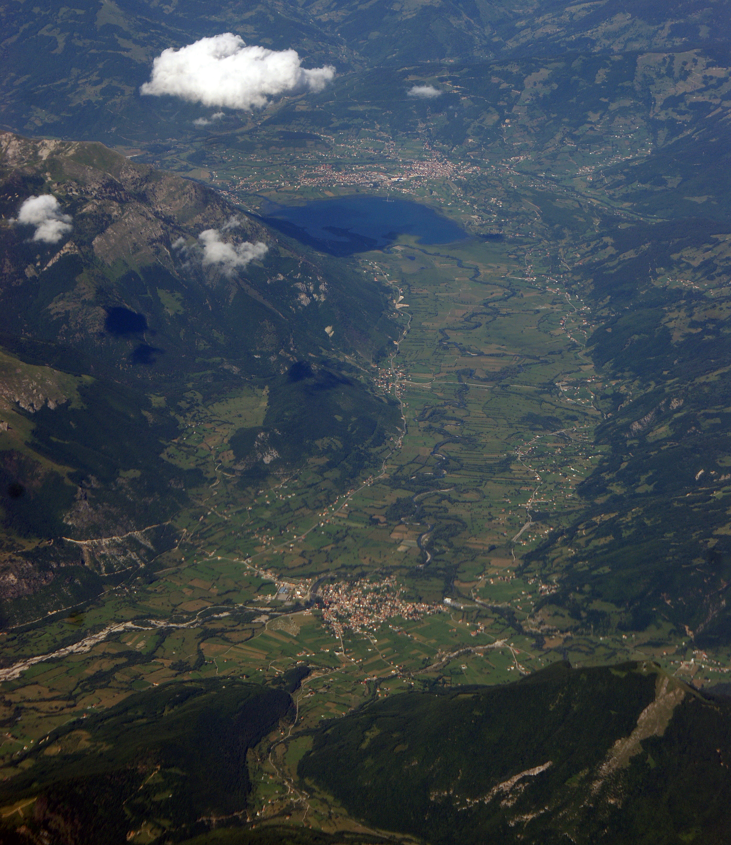 Towns of Gusinje (front) and Plav (background) in Southeastern Montenegro as seen from an airplane looking east. Lake Plav in the shadow of a clowd.